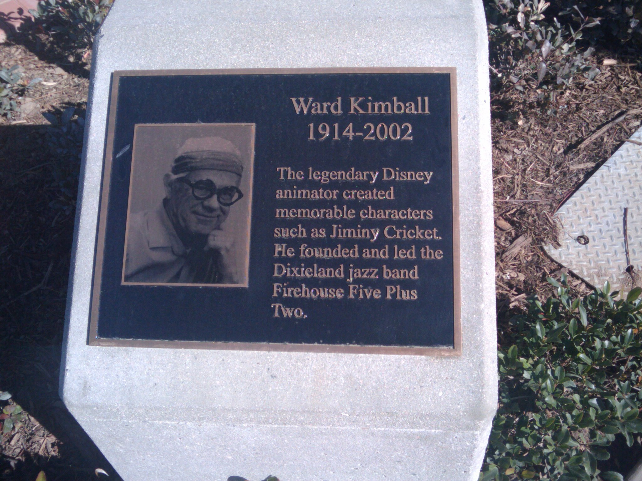 A marker describing Disney animator Ward Kimball at Metrolink's Downtown Perris Station in Perris, California. Artwork by Kimball is on display at the station.